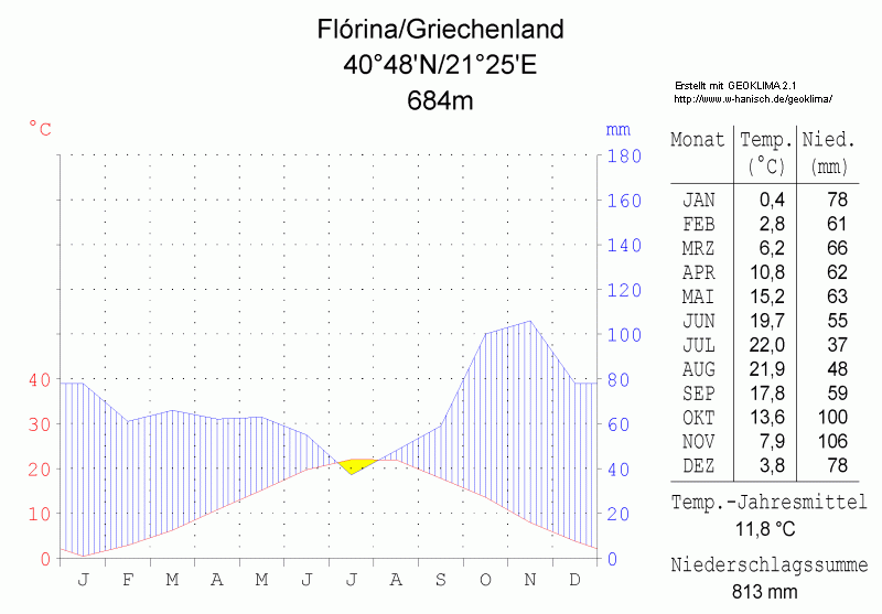 climate chart in the format by Walther and Lieth, metric, °Celsisus and millimeters, made with Geoklima 2.1